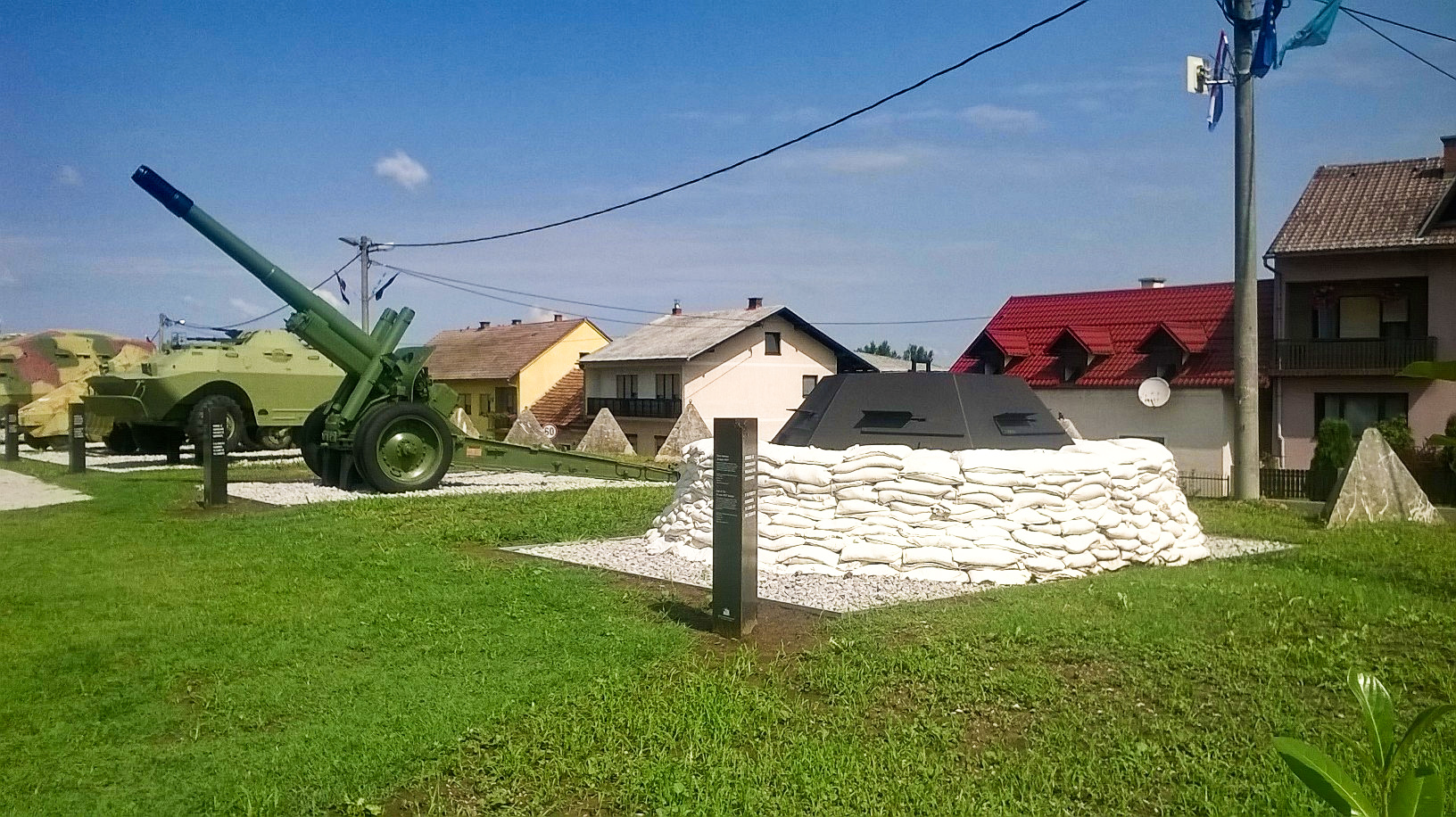 An example of the rare light bunker created by Mladen Krupa in 1991 during the Homeland War of Croatia conserved and presented at the Homeland War Museum in Karlovac, Croatia.